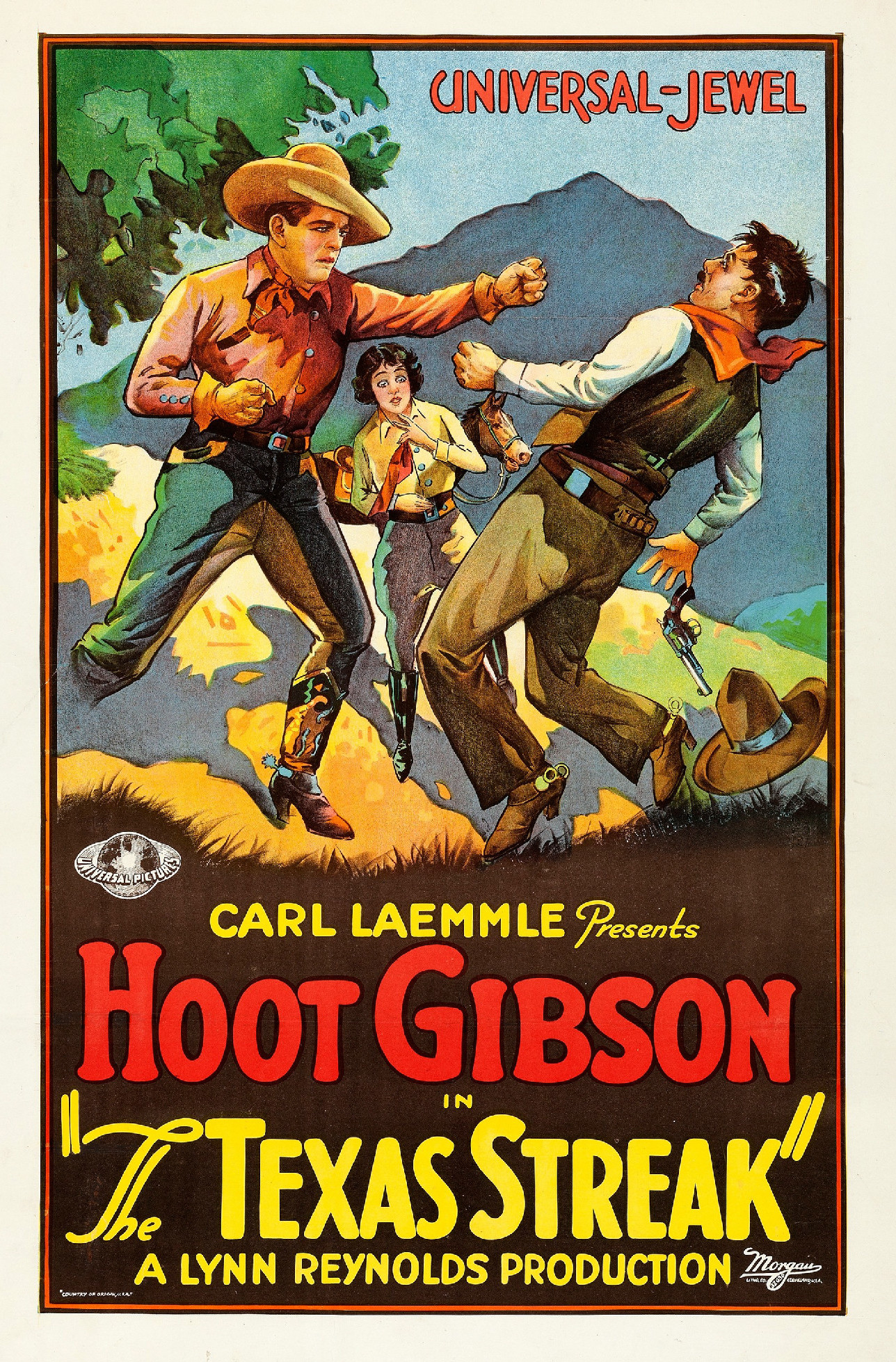 Poster for the 1925 film The Texas Streak. A renewal search was done in both film and artwork for the years 1952 and 1953. There were no listings for the film's title in film and no listings for Morgan Litho Company (printed the poster) or Universal in artwork. There's no evidence of continuing copyright on the film or related materials.